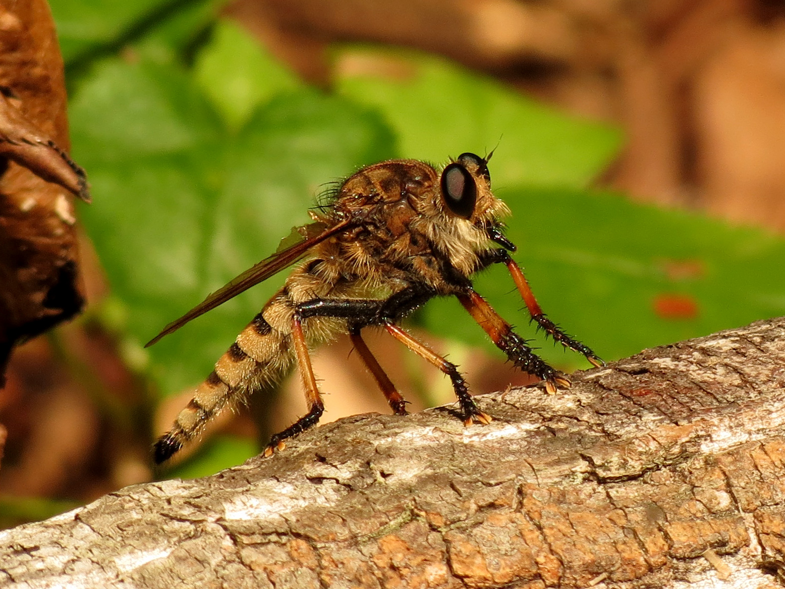 Promachus rufipes. Rock Creek Park, Washington, DC, USA.